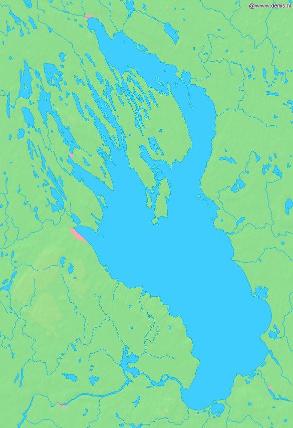 Lake Onega in Russia. Bounding box West 33.5°, South 60.8°, East 36.7°, North 63°. Center at 61°54′00″N 35°06′00″E / 61.90000°N 35.10000°E.